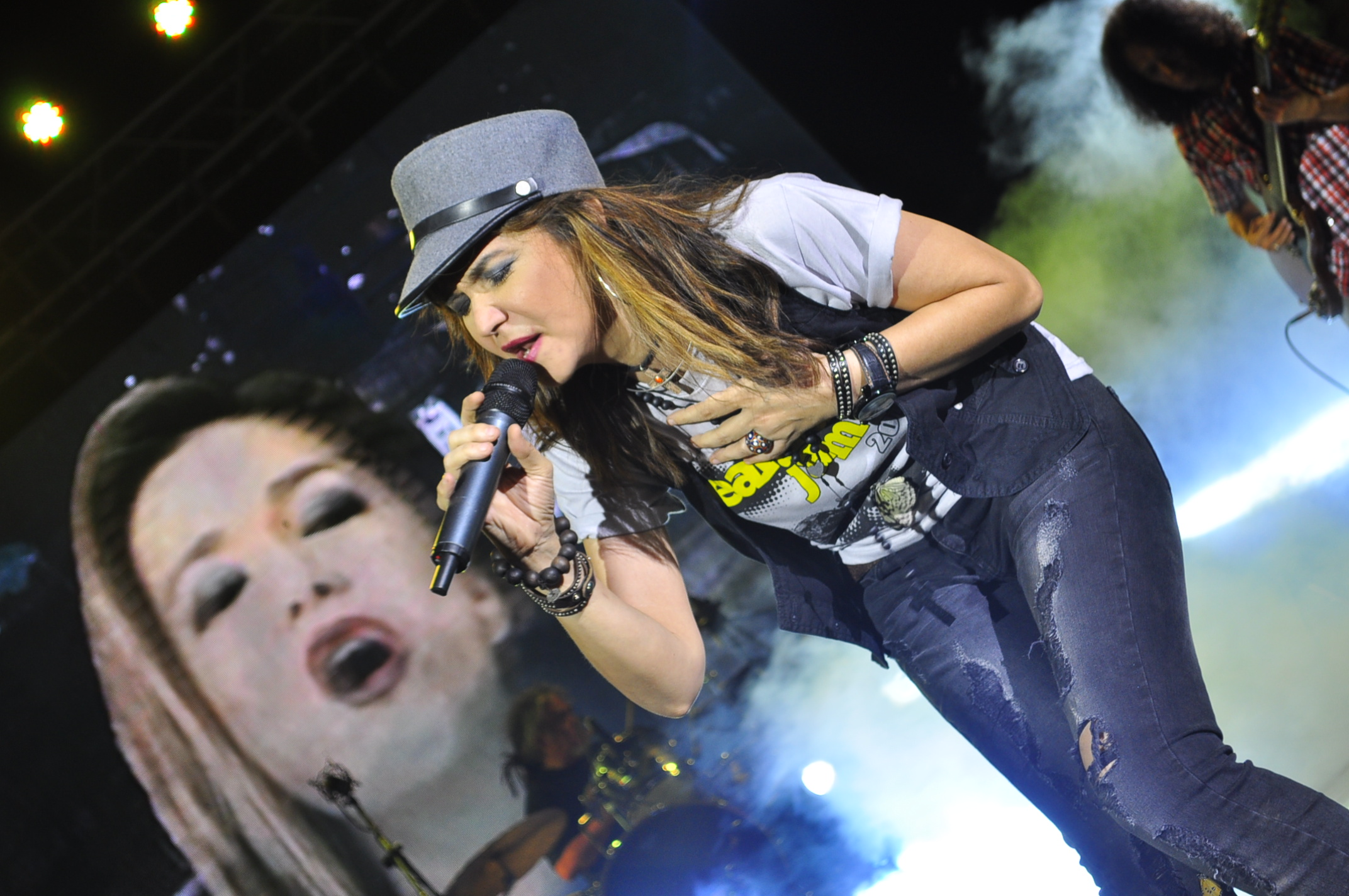 Phillipine pop rock musician Lou Bonnevie, at Earth Day Jam 2013.